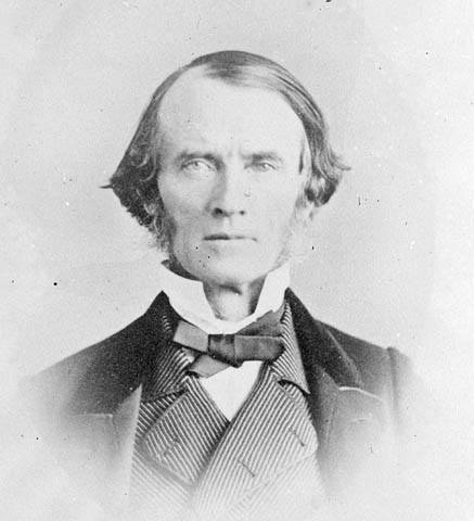 John Sandfield Macdonald, Ottawa (Ontario).